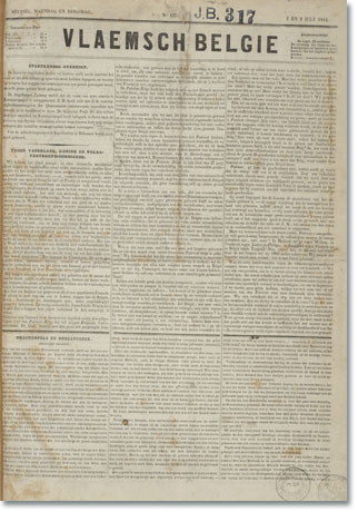 Front page of a Dutch Belgian newspaper, "Vlaemsch België", from 1844